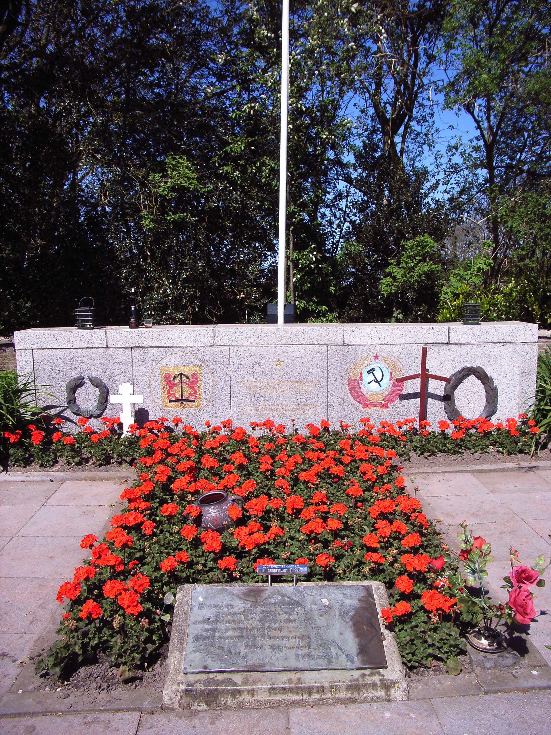 Georgian War Cemetry Loladze Texel the Netherlands